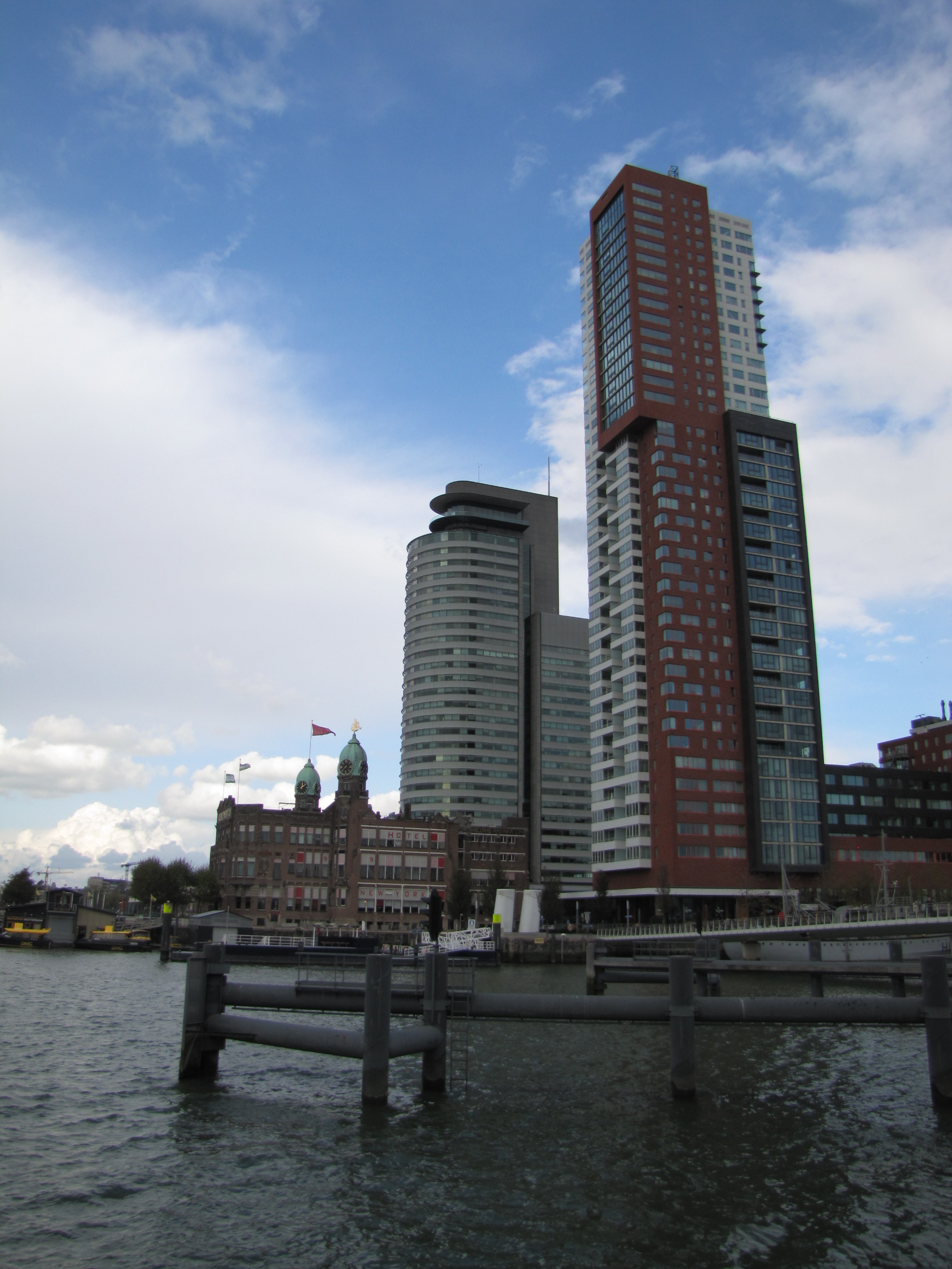 Pictures of Rotterdam on the 5th november 2017.